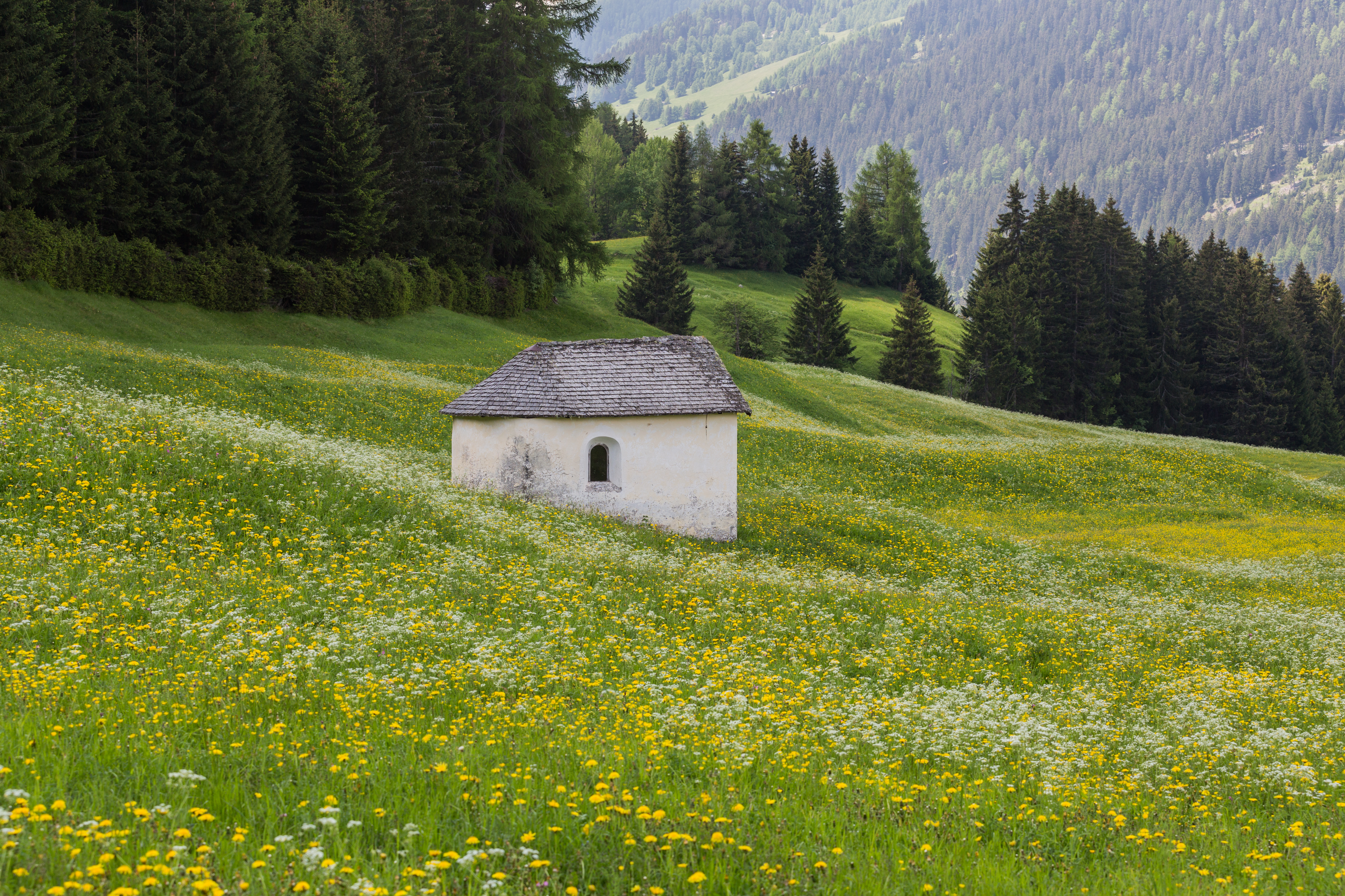 Hofkapelle Kompatsch, Nauders, Tyrol The making of this work was supported by Wikimedia Austria. For other files made with the support of Wikimedia Austria, please see the category Supported by Wikimedia Österreich. Dieses Foto wurde im Rahmen des von Wikimedia Österreich unterstützten ProjektsWiki Takes Nordtiroler Oberland erstellt. The making of this work was supported by Wikimedia Austria. For other files made with the support of Wikimedia Austria, please see the category Supported by Wikimedia Österreich.